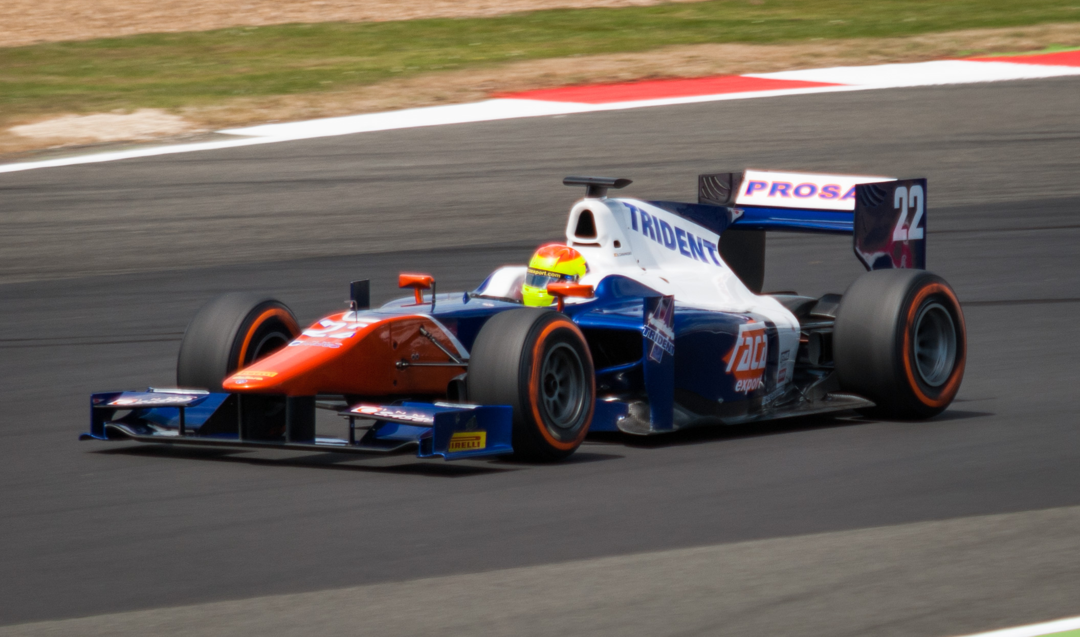 Sergio Canamasas driving for Trident Racing at Silverstone. Round 5 of the 2014 GP2 Series Championship.